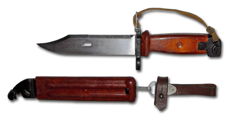 6H4-type bayonet of the AKM and AK74 assault rifles. The 6H4 blade forms a wire-cutting device when coupled with its scabbard. The polymer grip and upper part of the scabbard provide insulation from the metal blade and bottom part of the scabbard to safely cut electrified wire.